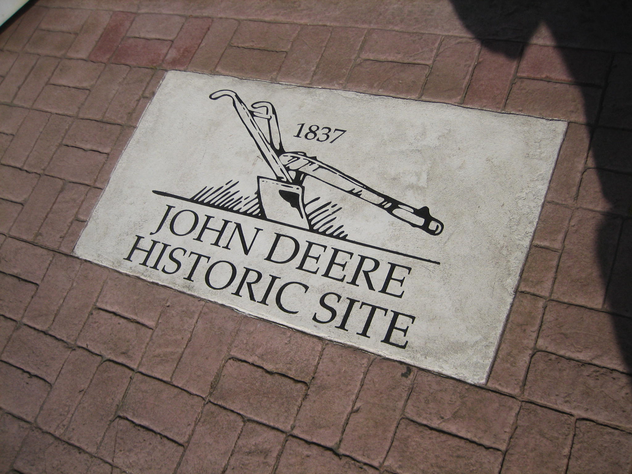 Sign on sidewalk concrete at entryway, John Deere Historic Site (John Deere House & Shop) - Grand Detour, Illinois, United States. U.S. National Register of Historic Places, U.S. National Historic Landmark.